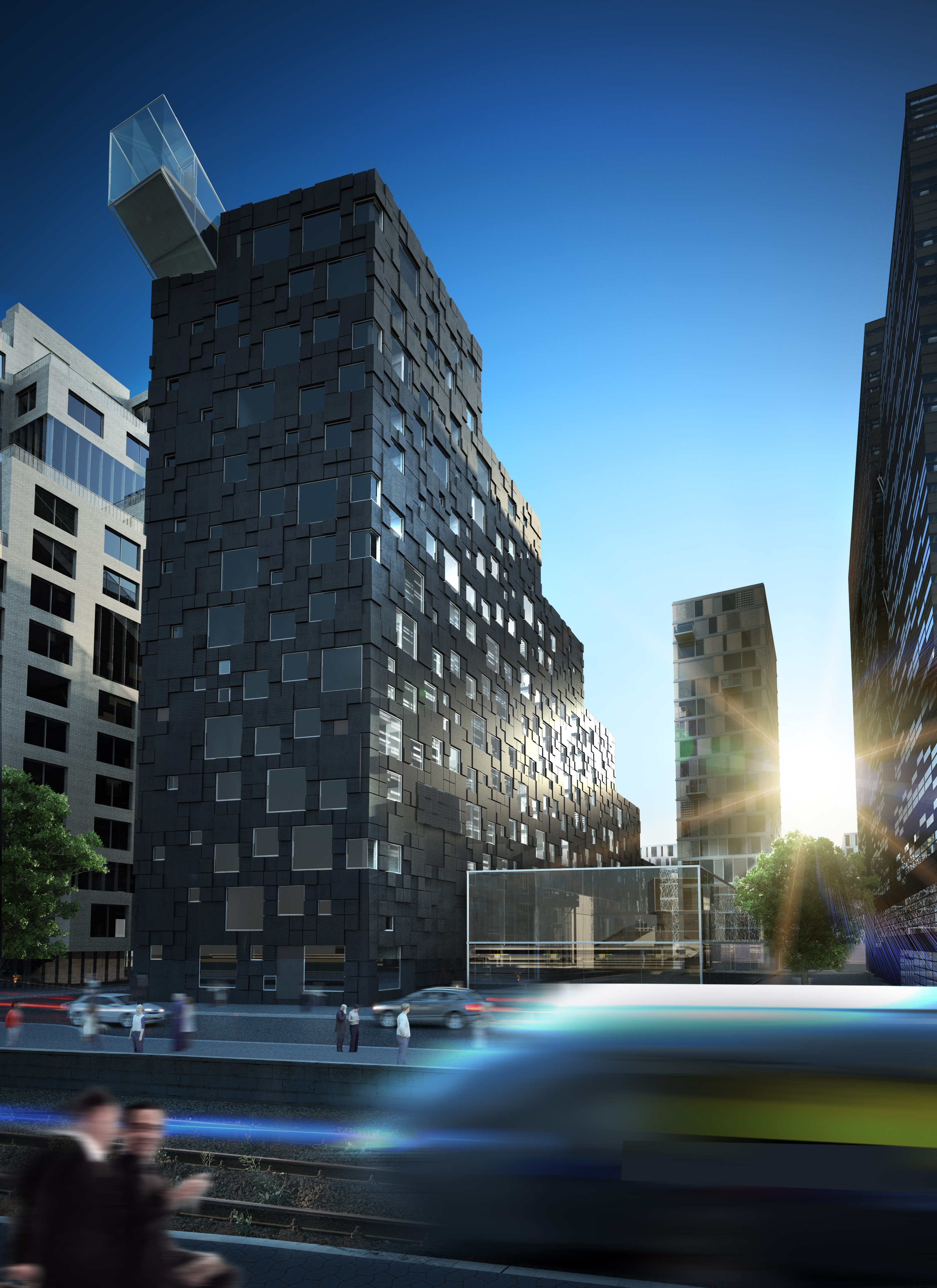 The C-building is one of three buildings in the DnB NOR complex situated in Bjørvika at the waterfront of Oslo. The C-building by Dark Arkitekter has within a surface of 12.000 m2 fifteen floors containing both offices and public services. The project will be completed in 2012. Thirteen generic office floors give the bank 500 workplaces. The two top floors contain a public restaurant and a bar with a 360 degree viewpoint area on the roof terrace. An inclined panorama elevator connects the viewpoint and the restaurant/bar on the top to the ground level restaurant at Dronning Eufemias gate, the new main boulevard of Oslo.